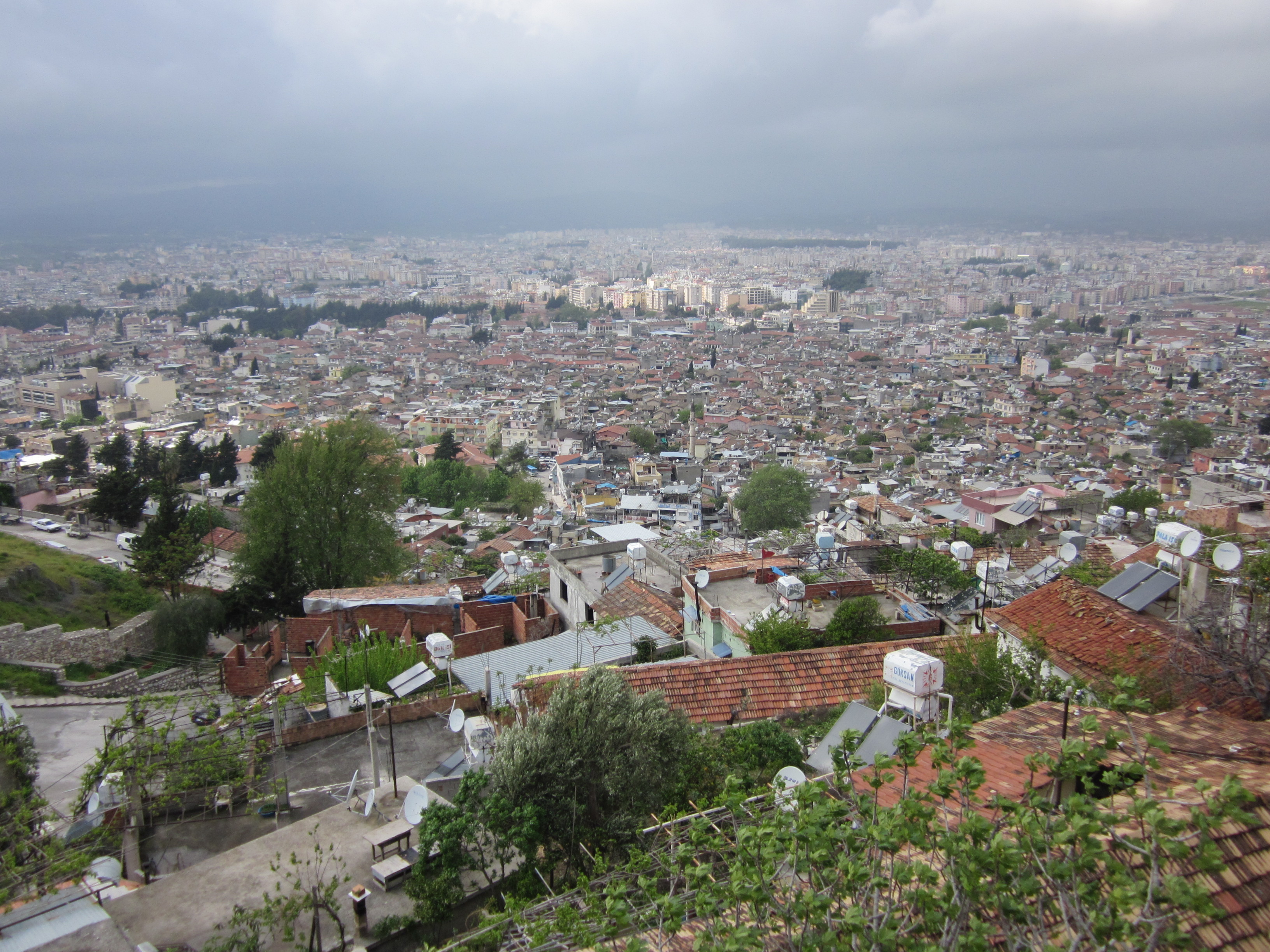 Antakya (Antioch), Hatay province, Turkey.